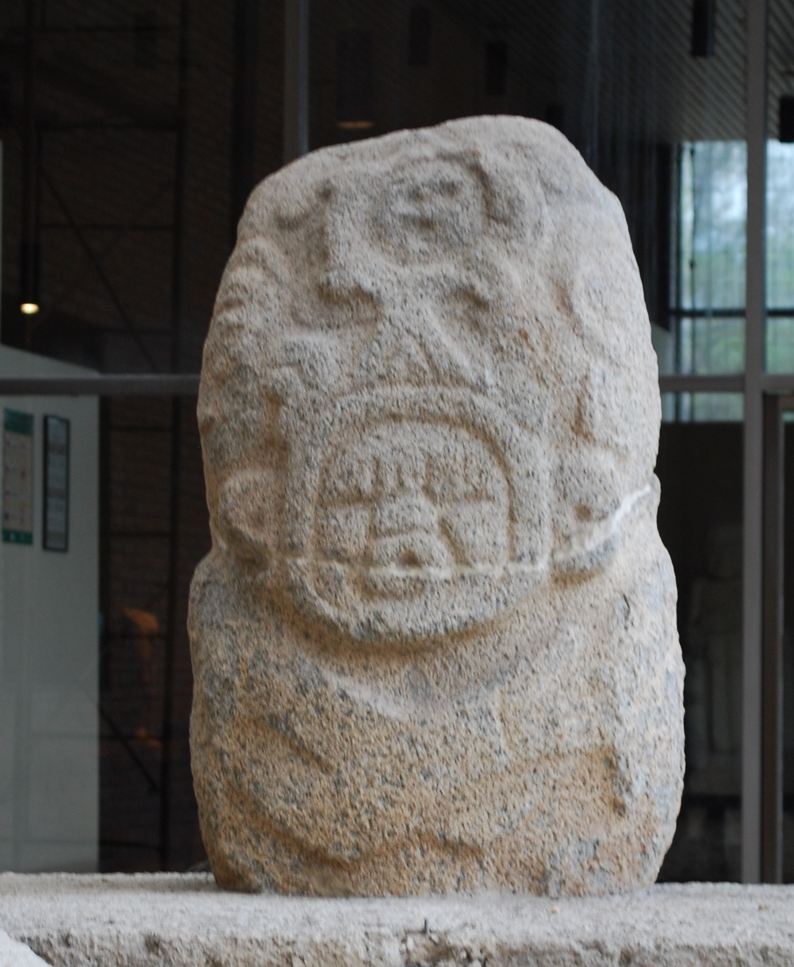 One of the stone sculptures from Tiltepec, Chiapas at the Regional Museum in Tuxtla Gutierrez, Chiapas, Mexico